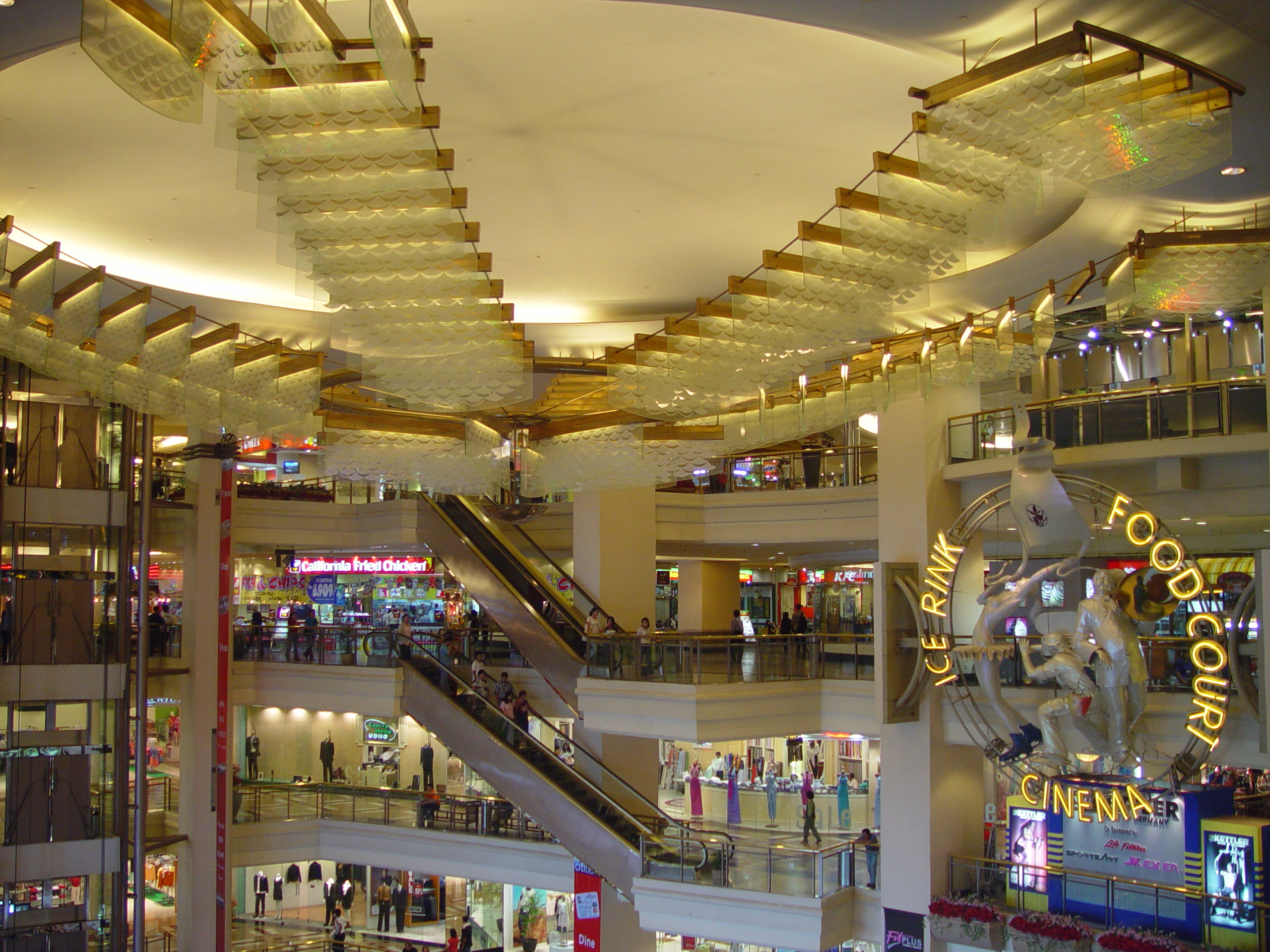 Mall cultural in Jakarta, Indonesia.